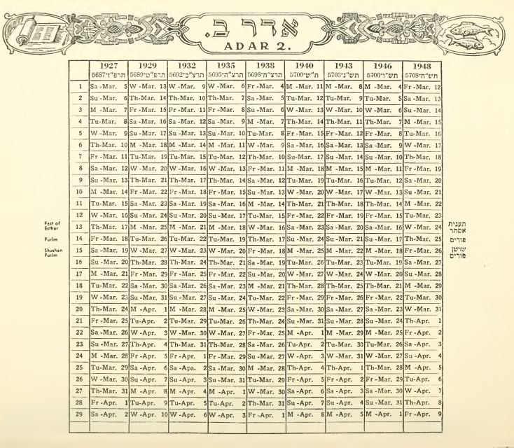 From: 24 year Hebrew - English calendar (1920) Author: H.J. Heinz Company Subject: Calendar, Jewish Publisher: Pittsburgh, PA : H.J. Heinz Co. Possible copyright status: NOT_IN_COPYRIGHT Language: English Call number: SRLF_UCLA:LAGE-4983876 Digitizing sponsor: Internet Archive Book contributor: University of California Libraries Collection: cdl; americana Notes: No TOC. Scanfactors: 3 Full catalog record: MARCXML This book has an editable web page on Open Library.